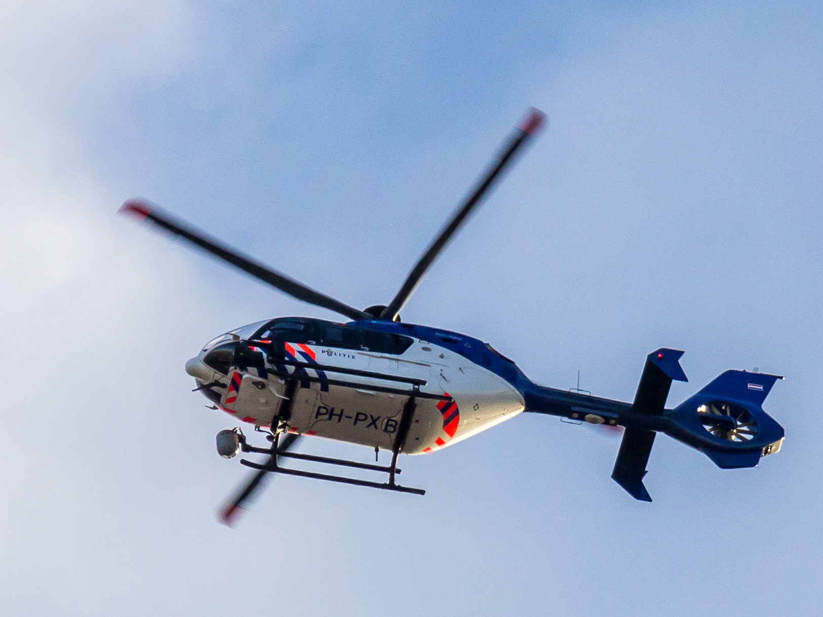 Dutch Police Helicopter H135 - PH-PXB - over Amsterdam